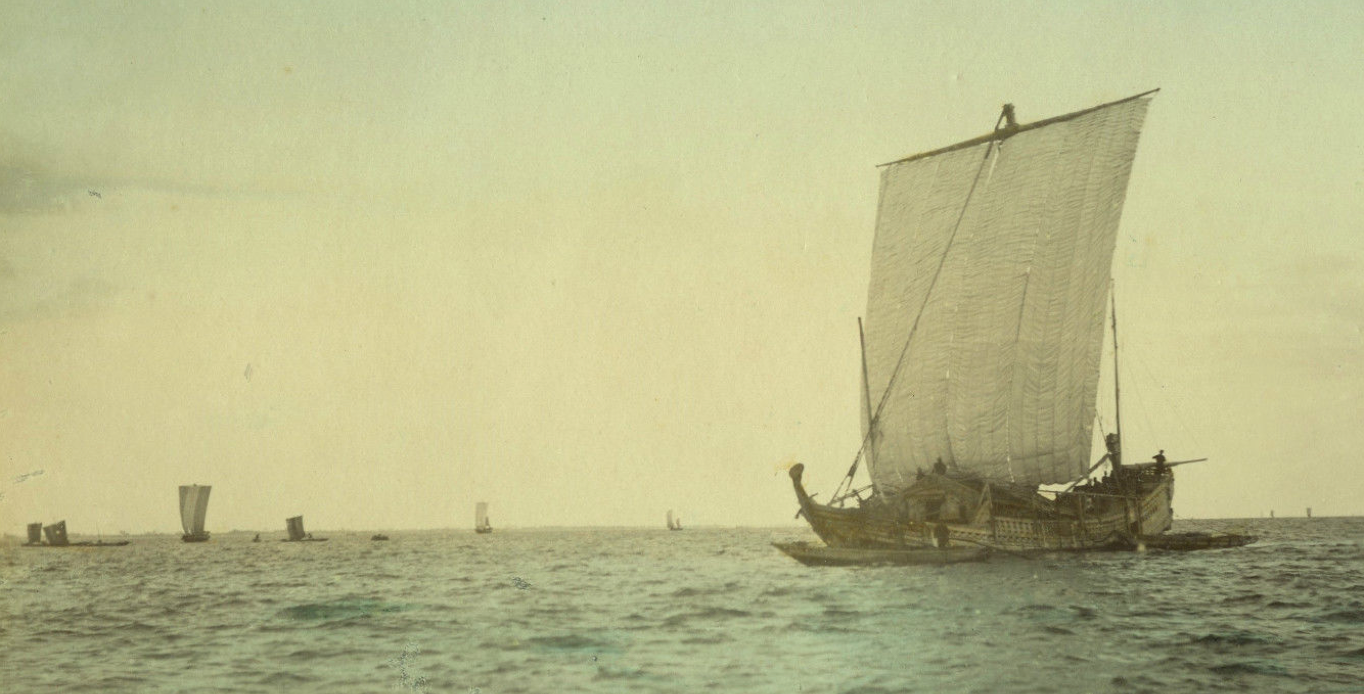 Scan of a photo of a late 19th century Japanese wooden sailing vessel.